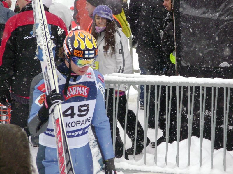 ski jumper Janne Ahonen from Finland during the World Cup in Zakopane on 27-1-2008